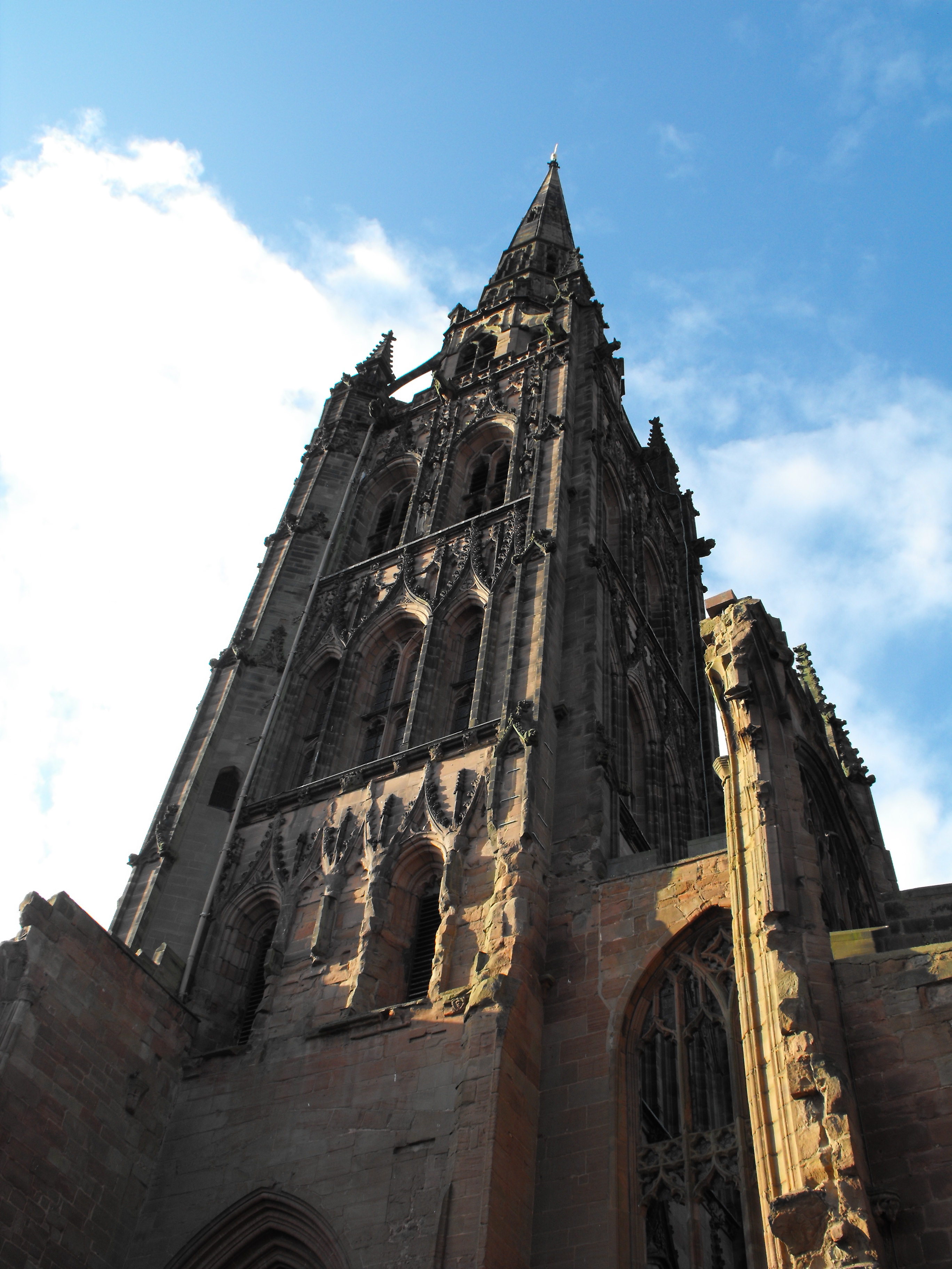 West tower and spire of the ruined St Michael's Cathedral, Coventry, seen from the northeast